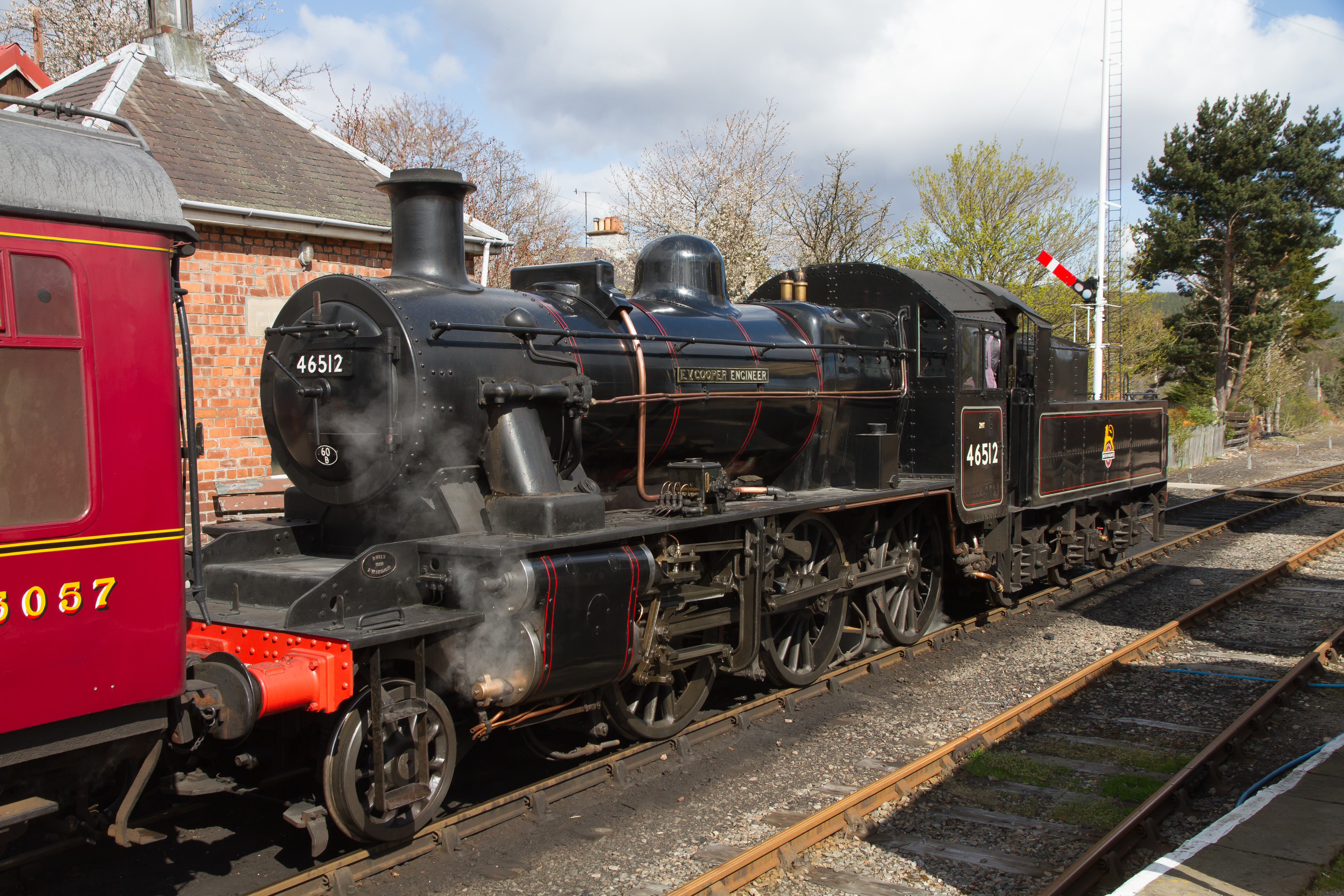 Ivatt 2MT at Boat of Garten